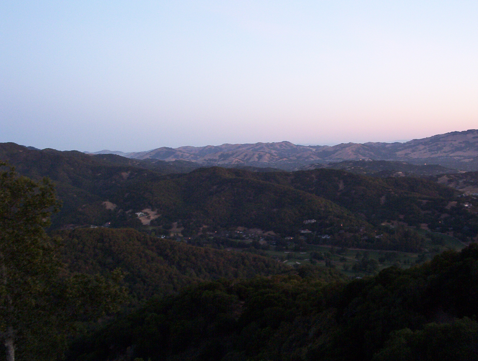 Hiking trail outside Novato — in Marin County, California. Summer 2008